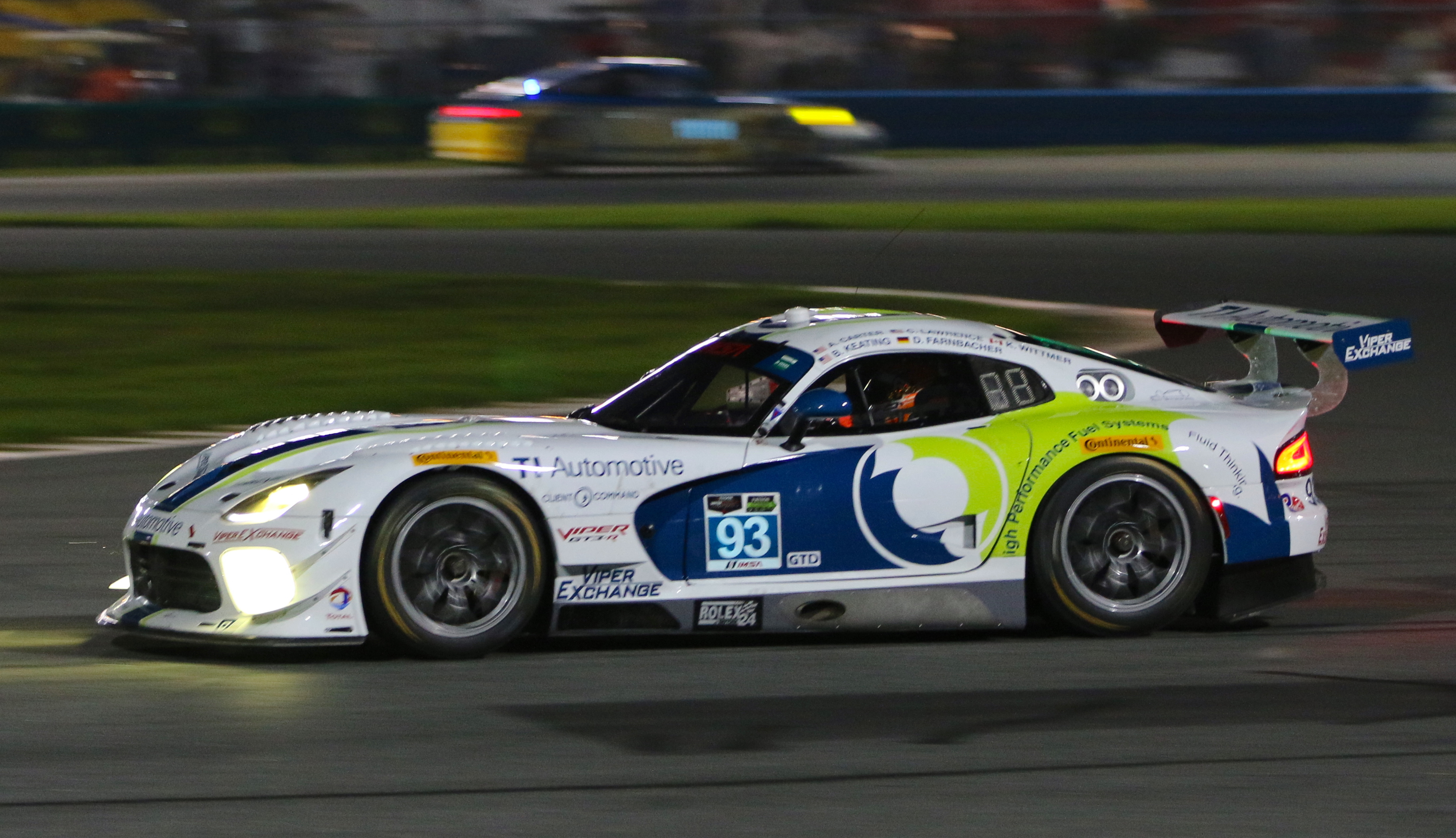 Cameron Lawrence - Riley Viper - Daytona January 2015 GTD Winner / 2015 Rolex 24 GTD Champion